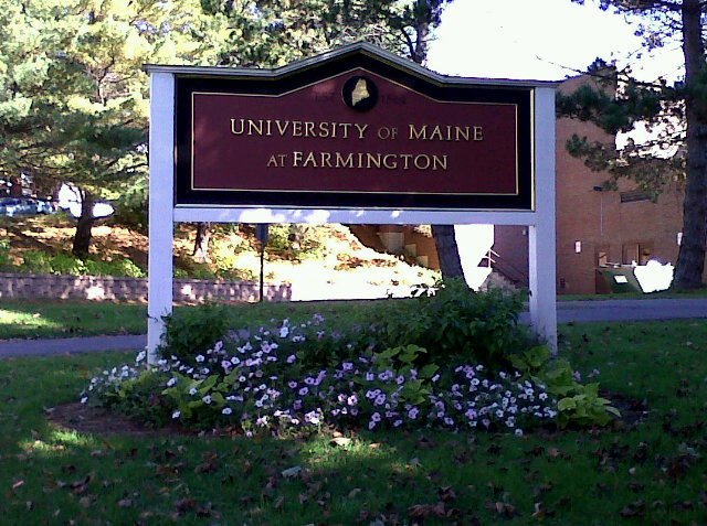 University of Maine at Farmington sign found outside of the Roberts Learning Center